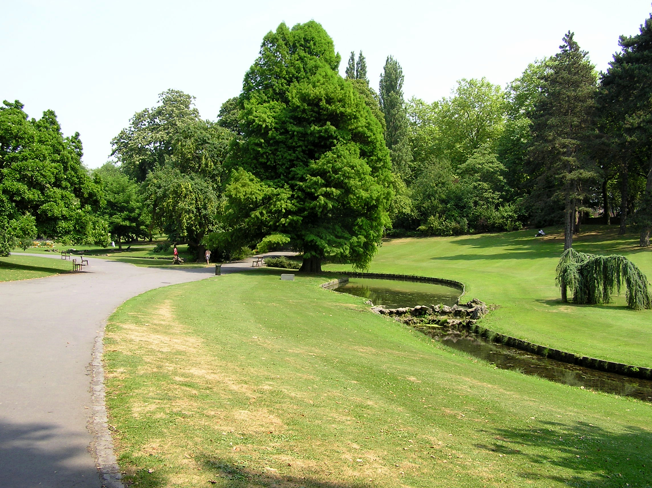 Impression of the Parc Barbieux in city of Roubaix in the north of France